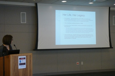 Photo by Abby Dansiger.